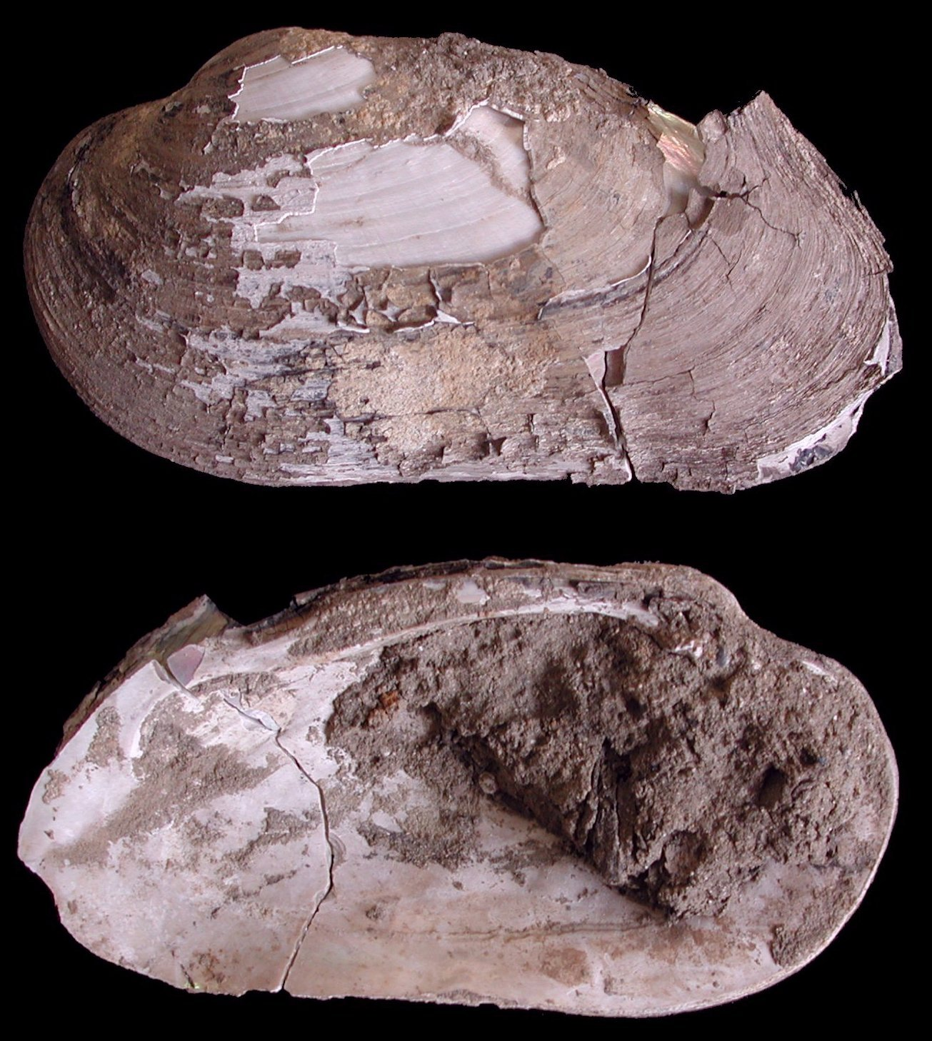 Pseudunio auricularia, Adult left valve, length: 142 mm; fossil specimen from Holocene deposits of the River Scheldt near Oudenaarde, Belgium